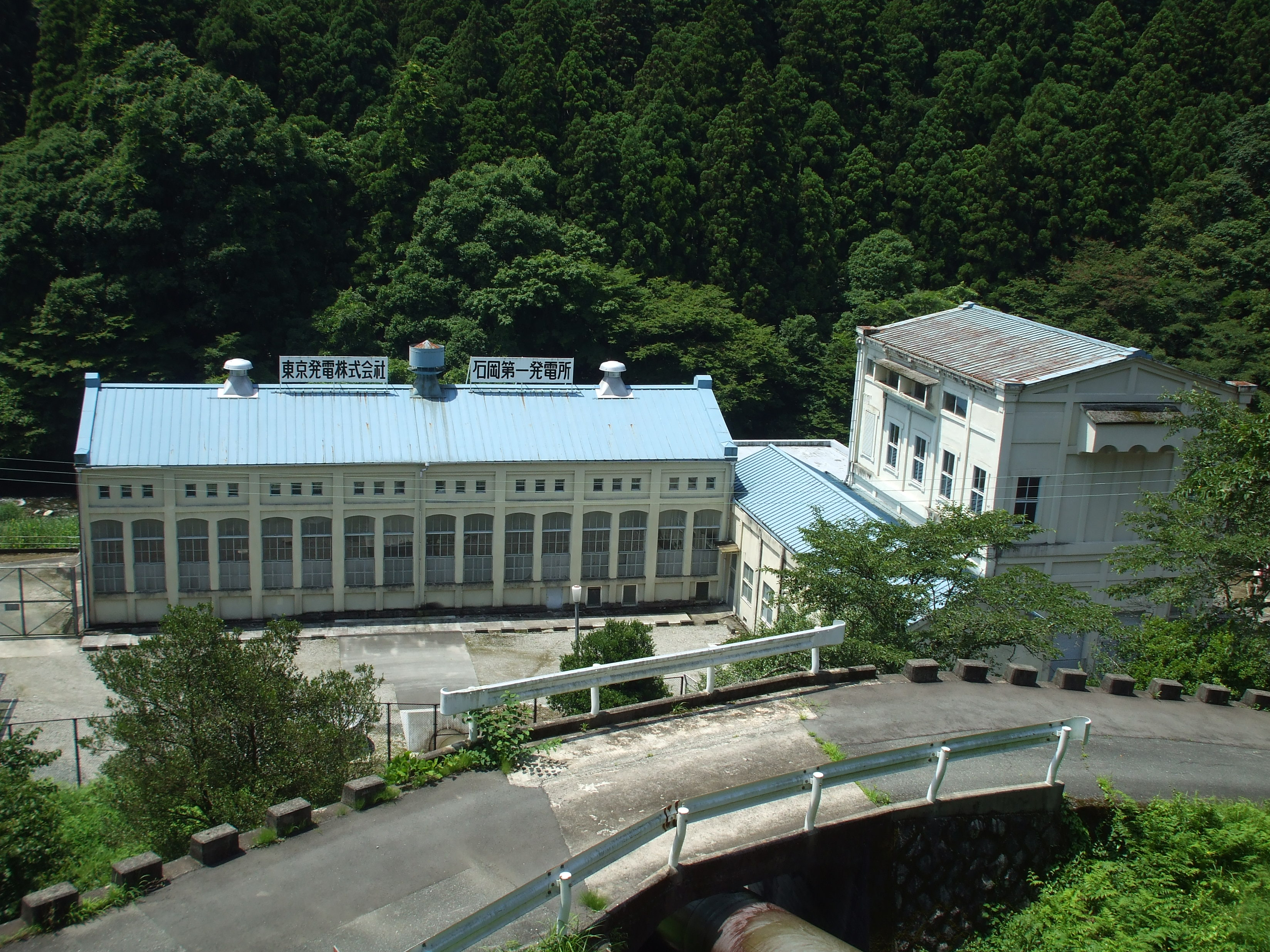 a hydroelectric power station in Ibaraki Prefecture, Japan